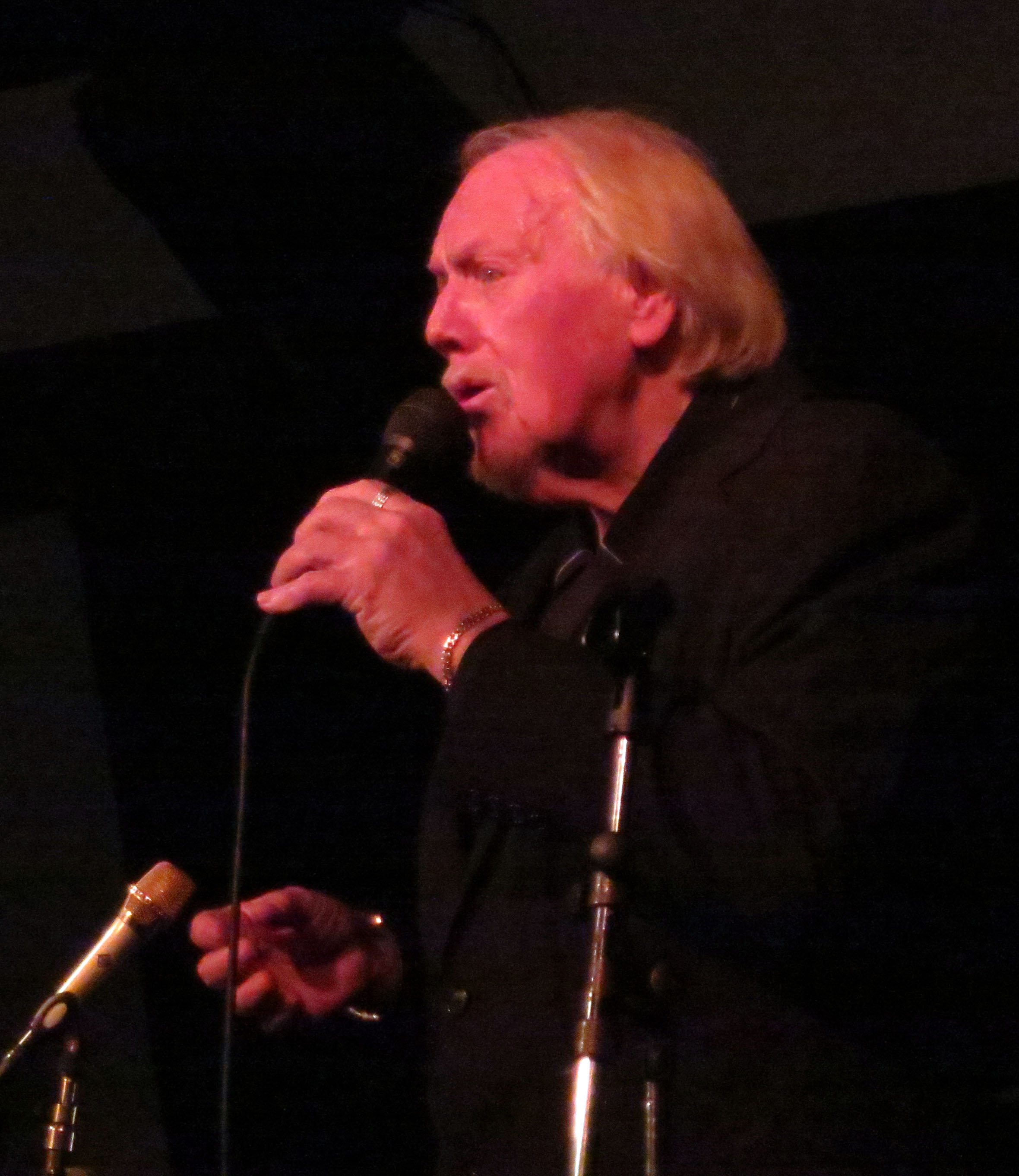 Swedish singer Svante Thuresson performs at Skottvångs gruva near Gnesta, November 17 2012.